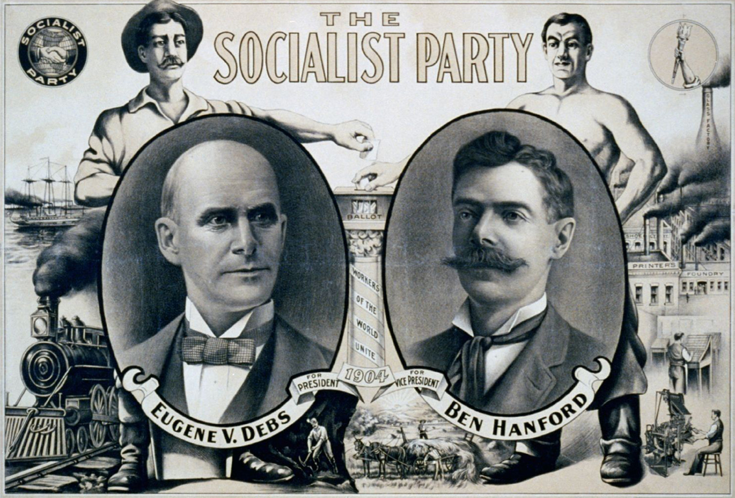 Election poster for Eugene V. Debs, Socialist Party of America candidate for President, 1904